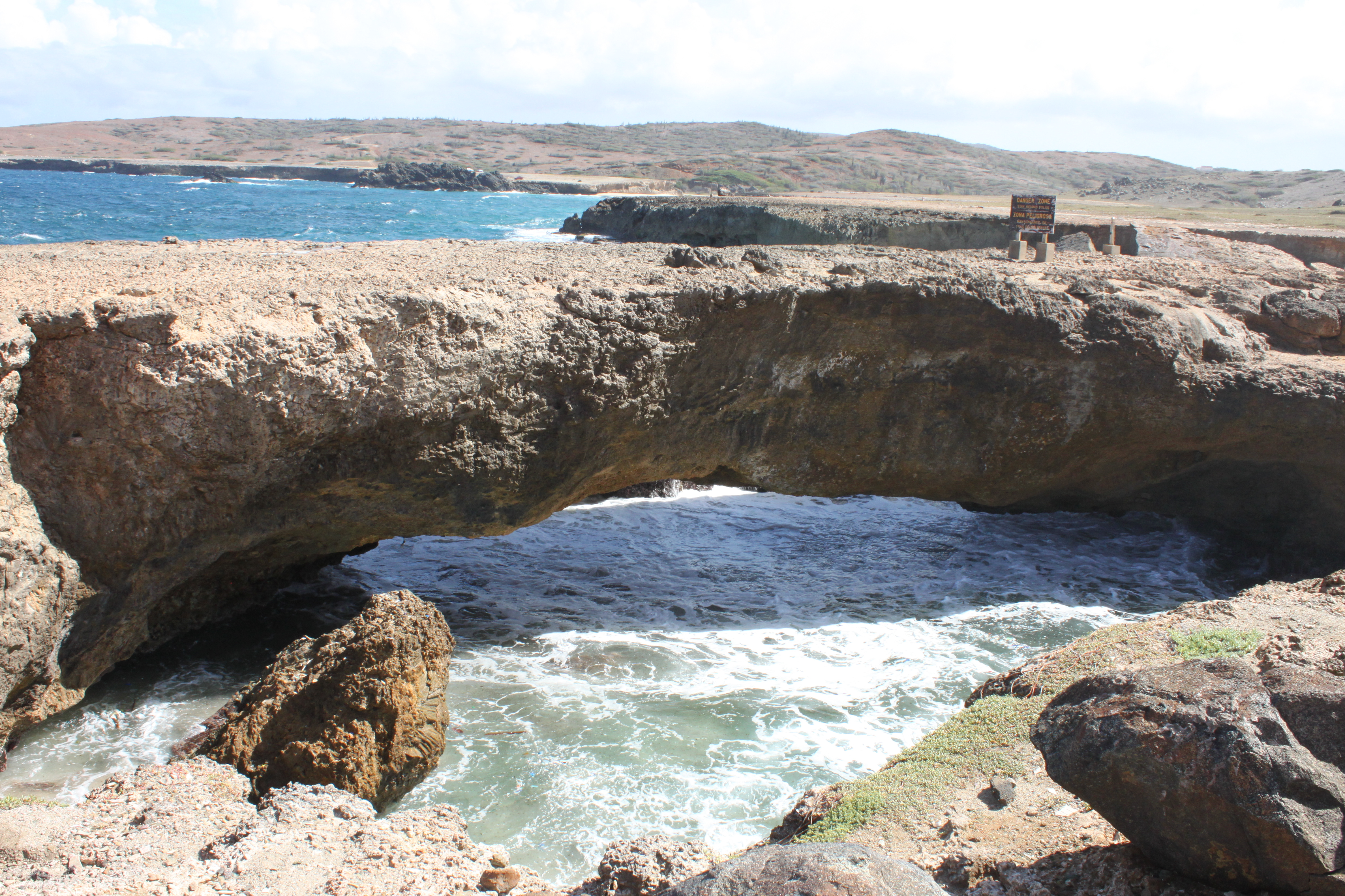 Natural bridge in Aruba